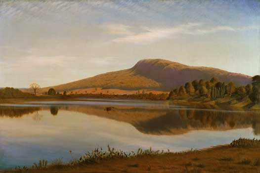 Thomas Charles Farrer (British, 1839-1891): Mount Holyoke, Oil on canvas, 1865. Mount Holyoke College Art Museum. Purchase with the Elizabeth Peirce Allyn (class of 1951) Fund and the Warbeke Art Museum Fund